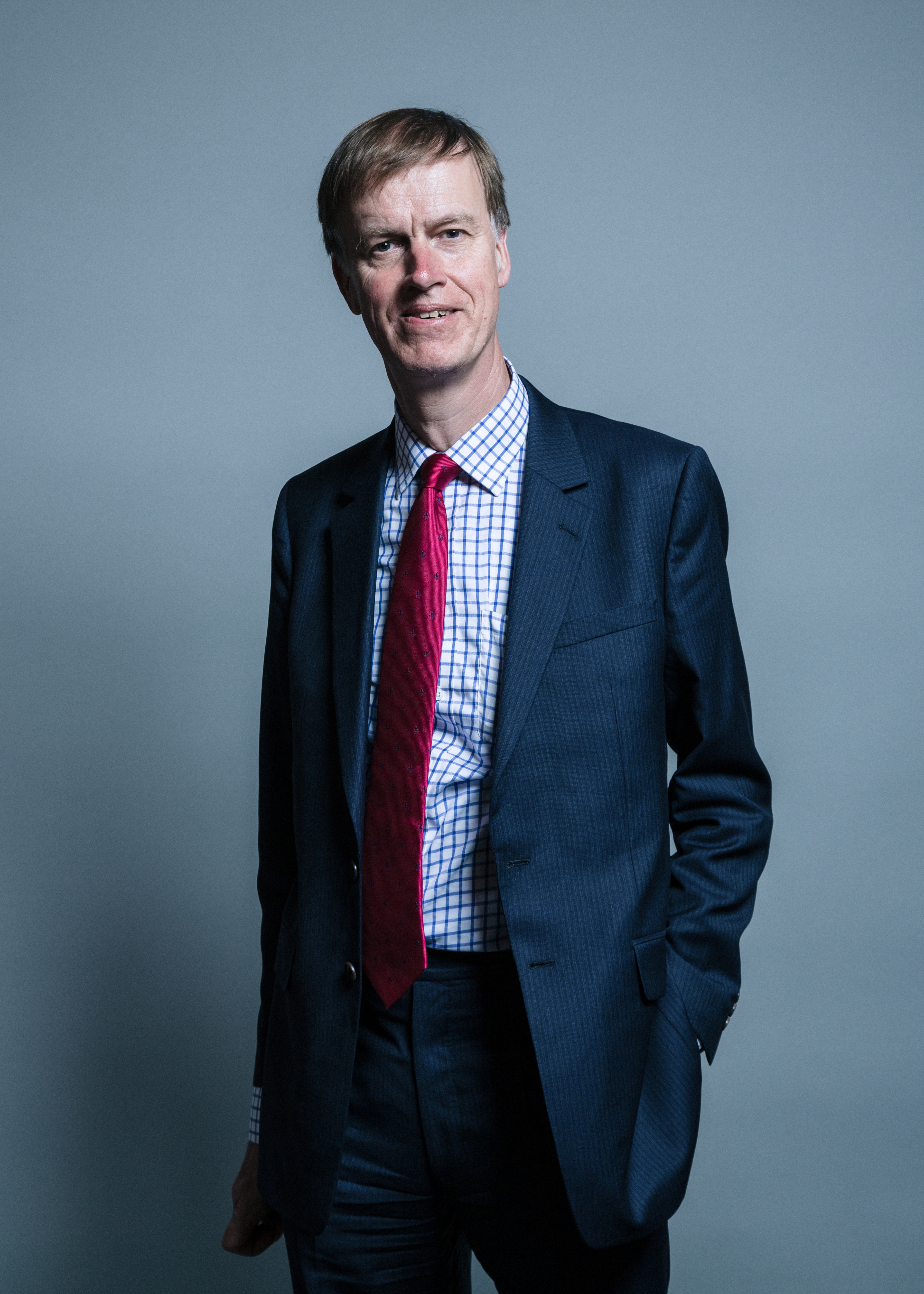 Official portrait of Stephen Timms